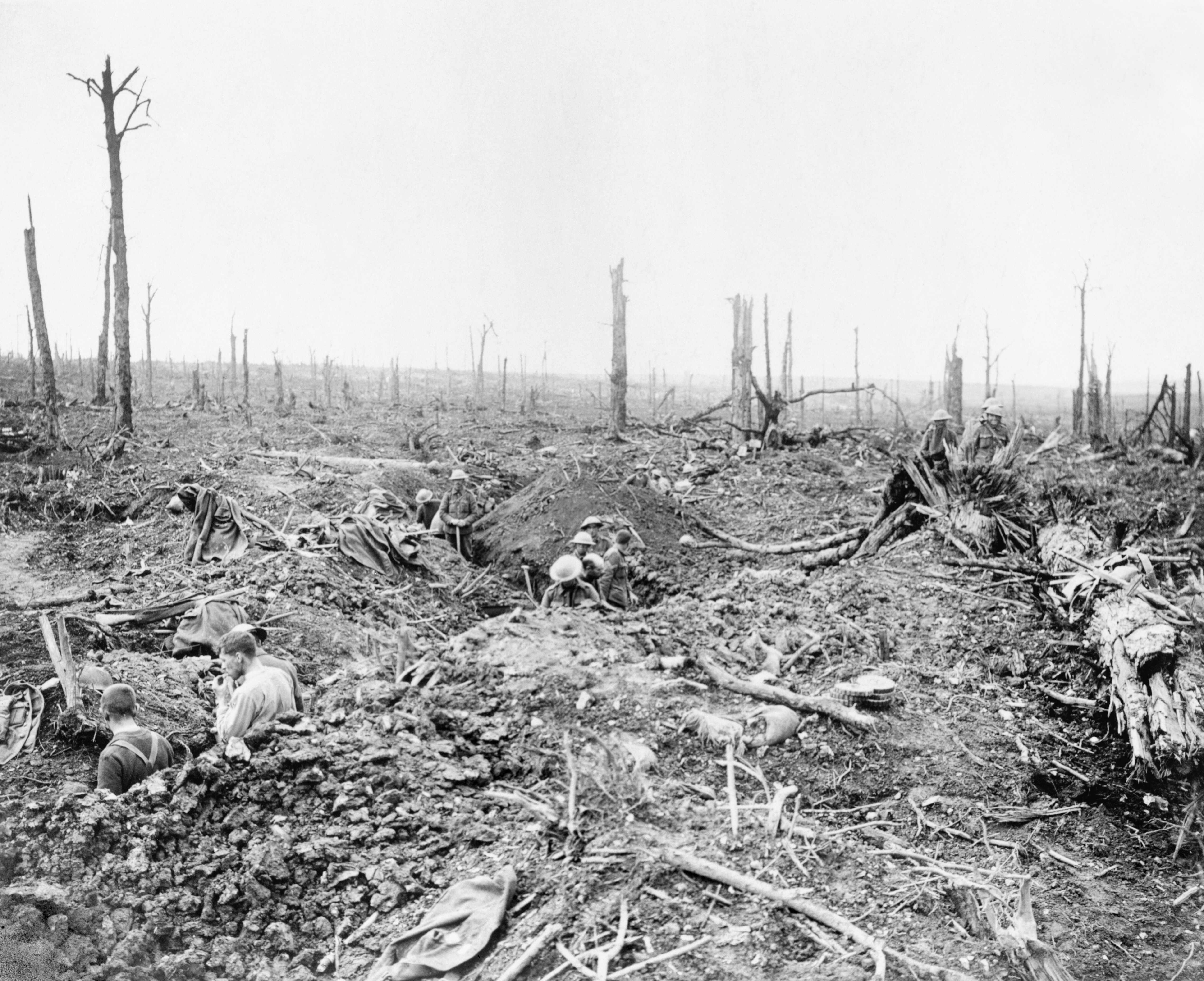 The Battle of the Somme, July-november 1916 Battle of Bazentin Ridge, 14-17 July 1916. Soldiers digging a communication trench through Delville Wood. An officer observing from the ruins of Longueval Church.